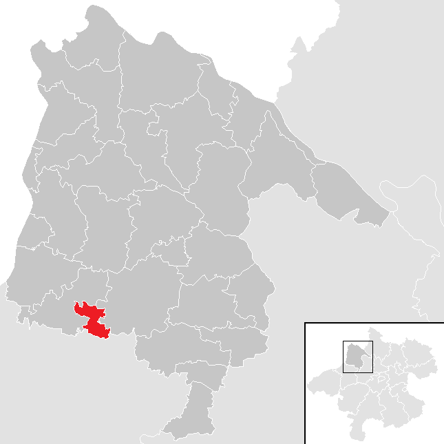 district Schärding